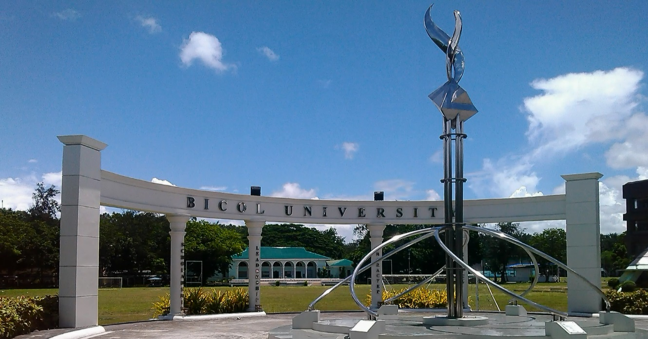 The Torch of Wisdom and the Four Pillars of the University is the traditional landmark of BU